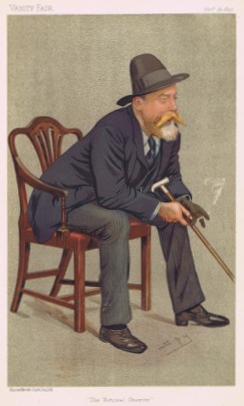 Caricature of Mr WE Henley. Caption read "The National Observer".